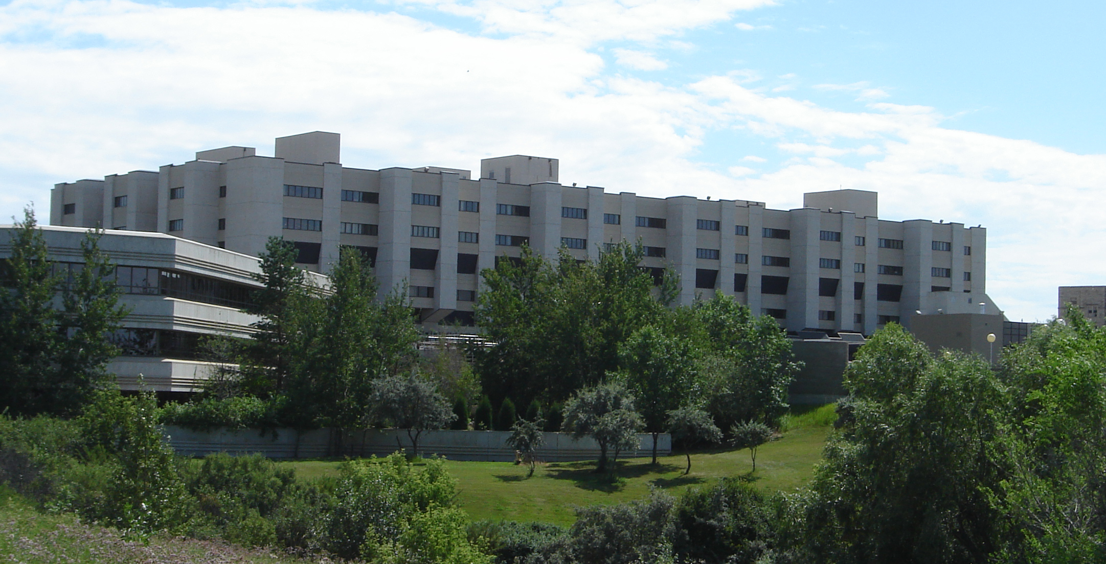 Royal University Hospital associated with the College of Medicine - University of Saskatchewan U of S Saskatoon Saskatchewan Canada